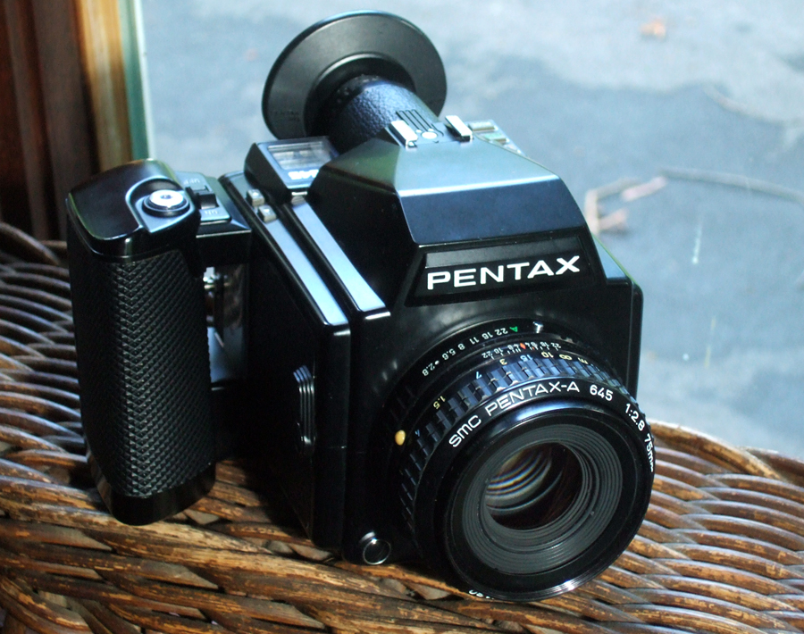 Pentax 645 SLR camera.